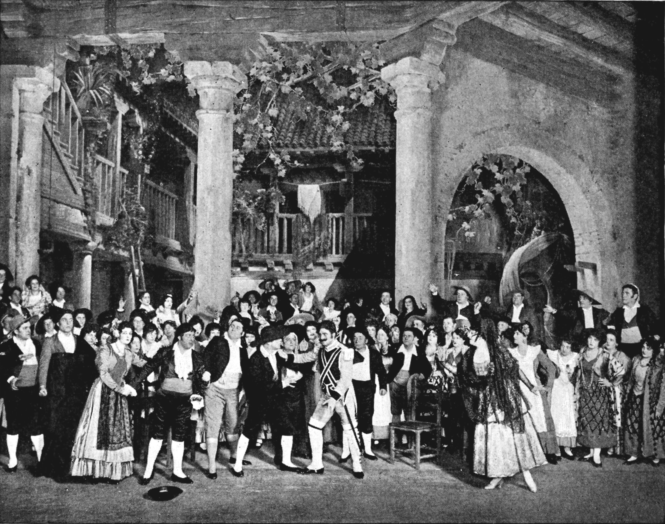 Granados - Goyescas, scene II - The challenge Title: The Victrola book of the opera : stories of one hundred and twenty operas with seven-hundred illustrations and descriptions of twelve-hundred Victor opera records Year: 1917 (1910s) Authors: Victor Talking Machine Company Rous, Samuel Holland Subjects: Operas Publisher: Camden, N.J. : Victor Talking Machine Co. Text Appearing Before Image: FROM THE PAINTING BY THE RHINE MAIDENS RECOVER THE RHINEGOLD191 Text Appearing After Image: PHOTO WHITE THE CHALLENGE SCENE t GOYESCAS OR THE RIVAL LOVERS SPANISH OPERA IN ONE ACT AND THREE SCENES Text by Fernando Periquet; music by Enrico Granados. The work was accepted forthe Paris Opera, but war prevented its production, so Senor Granados brought it to Amer-ica, and personally supervised the production. The composer and his wife were lost ontheir return trip through the sinking of their ship by a German submarine. The first per-formance on any stage took place at the Metropolitan Opera House, New York, January 28,1916. Characters and Original CastROSARIO, a lady of rank. . .Anna Fitziu (first appearance at the Metropolitan) FERNANDO, her lover , Giovanni Martinelli PEP A, a notorious maja Flora Perini PAQUIRO. a toreador Giuseppe de Luca A PUBLIC SINGER Max Bloch Conductor—Gaetano Baragnali Time and Place: Outskirts of Madrid, Spain; about 1800.192 VICTROLA BOOK OF THE O P E R A — G O Y E S C A S Goyescas is the first opera to be sung in the United States in the Spani